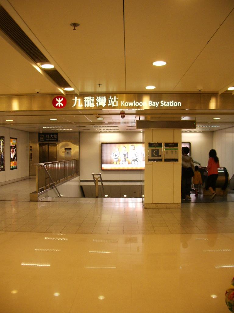 Kowloon Bay Station Exit C